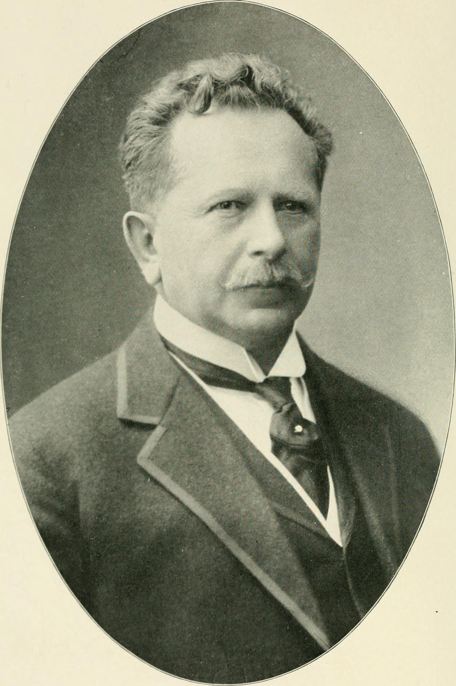 Charles J. Vopicka, Ambassador of United States in Romania Identifier: secretsofbalkans00vopi Title: Secrets of the Balkans Year: 1921 (1920s) Authors: Vopicka, Charles J., 1857-1935 Subjects: World War, 1914-1918 -- Balkan Peninsula Eastern question (Balkan) Balkan Peninsula -- Politics and government Publisher: Chicago : Rand, McNally & company View Book Page: Book Viewer About This Book: Catalog Entry View All Images: All Images From Book Click here to view book online to see this illustration in context in a browseable online version of this book. Text Appearing Before Image: ' Text Appearing After Image: Charles J. Vopicka SECRETSOF THE BALKANS SEVEN YEARS OF A DIPLOMATISTS LIFEIN THE STORM CENTRE OF EUROPE ByCHARLES J. VOPICKA UNITED STATES ENVOY EXTRAORDINARY AND MINISTER PLENIPOTENTIARYTO ROUMANIA, SERBIA AND BULGARIA, 1913-1920 CHICAGO RAND MCNALLY & COMPANY 1921 Copyright, 1921, byCharles J. Vopicka Made in U. S. A.Press of Rand McNally. Chicago FOREWORD A BLOW struck in the Balkans, as of steel upon flint; aspark, a flame—and then, the holocaust of the world! But the blow came from without; the hand of tyranny wasraised against a people whose freedom had been bought withtheir own blood. The World War began in the Balkans, yet its origin was inthe hearts of the unscrupulous autocrats whose ruthless ambi-tion knew neither justice nor limit; who counted the subjectionof a free people merely as the first move in the game to wincommercial and political supremacy, and in the end, to dominatethe world. Serbia was only a pawn, to be swept aside as thefirst obstacle in the path ofsecretsofbalkans00vopi